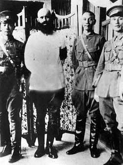 Soviet advisor Mikhail Borodin with Chiang Kai-shek at the Whampoa Military Academy